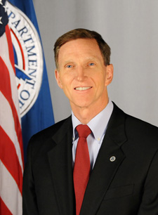 John S. Pistole, Administrator Transportation Security Administration[1]